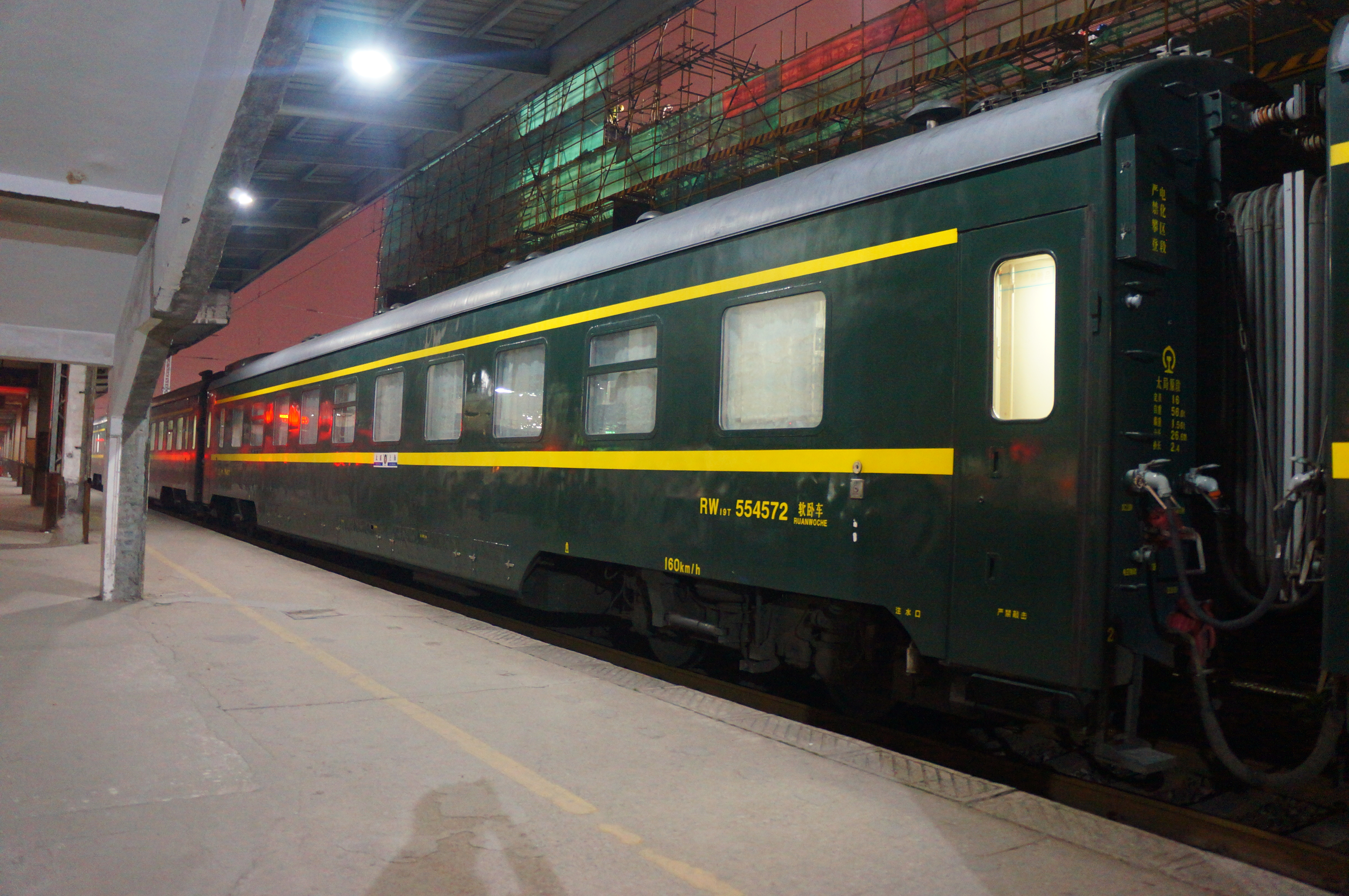 201702 RW19T-554572 from Z196 at Wuxi Station. The elevated waiting room behind is unter construction